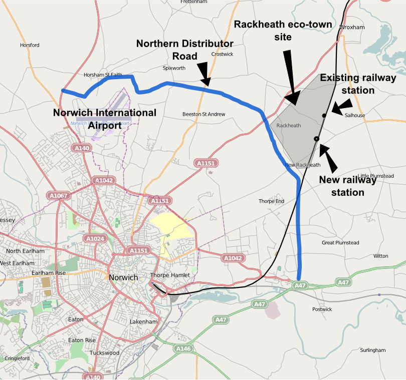 A map of the proposed Rackheath eco-town along with the existing and planned transport connections in the area. This map may be incomplete, and may contain errors. Don't rely solely on it for navigation.